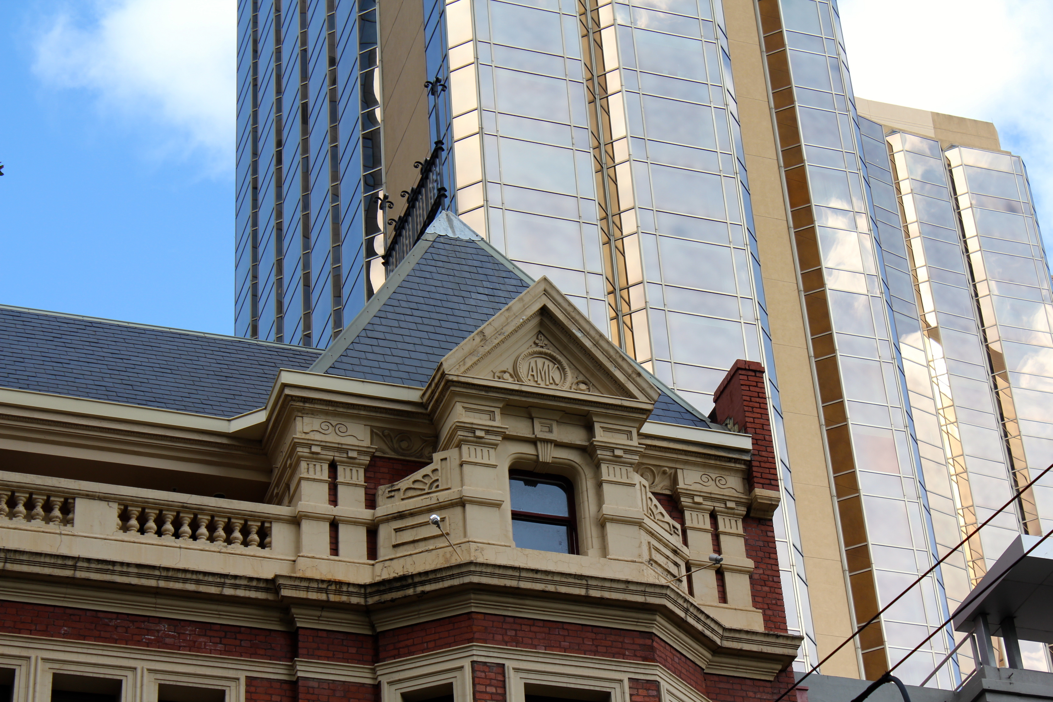 detail